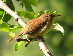 House wren.